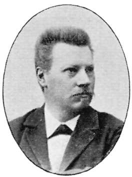 Image scanned from the book "Svenskt Porträttgalleri XX - Arkitekter, Bildhuggare, Målare m.fl. " ("Swedish Portrait Gallery XX - Architects, Sculptors, Painters, ") published 1901